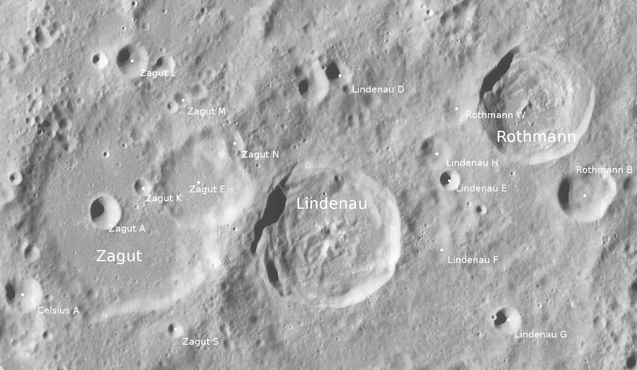 Craters Zagut, Lindenau + Rothmann (detail of LRO - WAC global moon mosaic; Mercator projection)